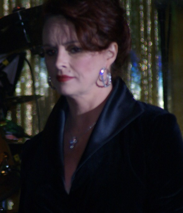 Sheena Easton